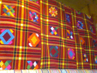 A selection of textiles from Bhutan